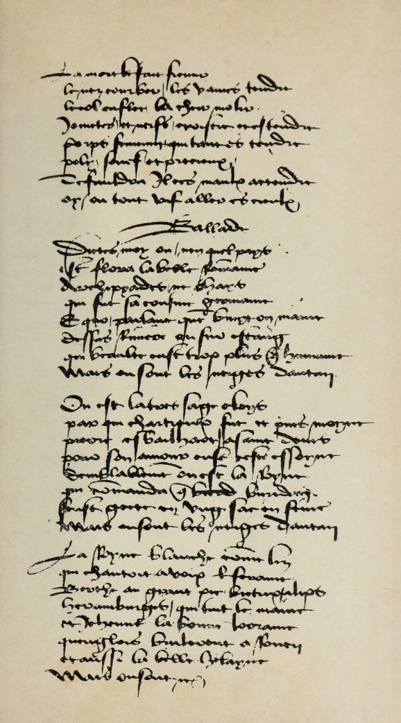 Opening lines of Villon's "Balade des dames du temps jadis" from the Stockholm manuscript